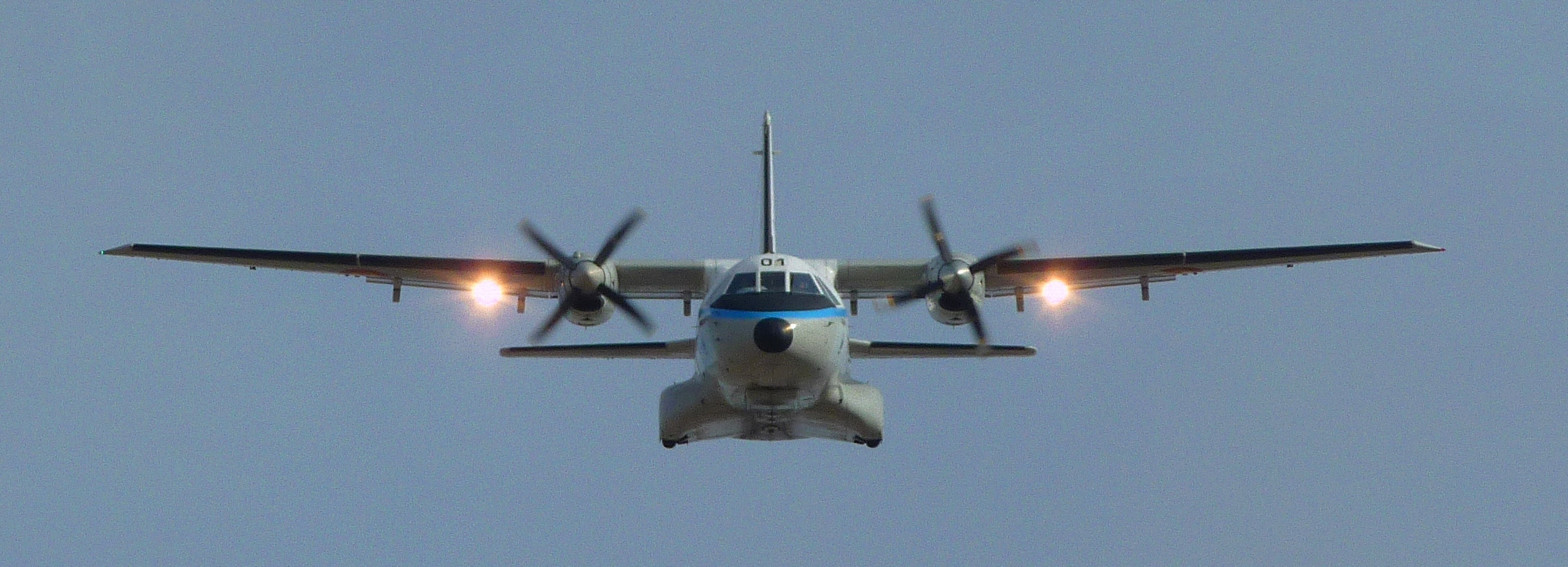 Spanish Air Force photogrammetry CN-235.